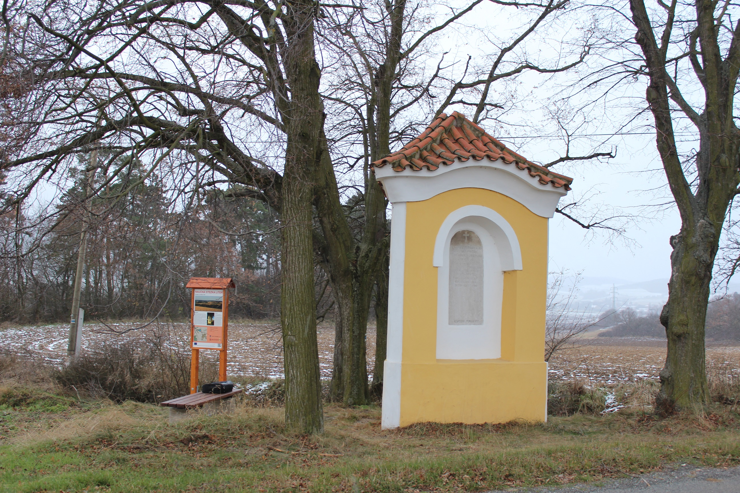 Chapel in Korno